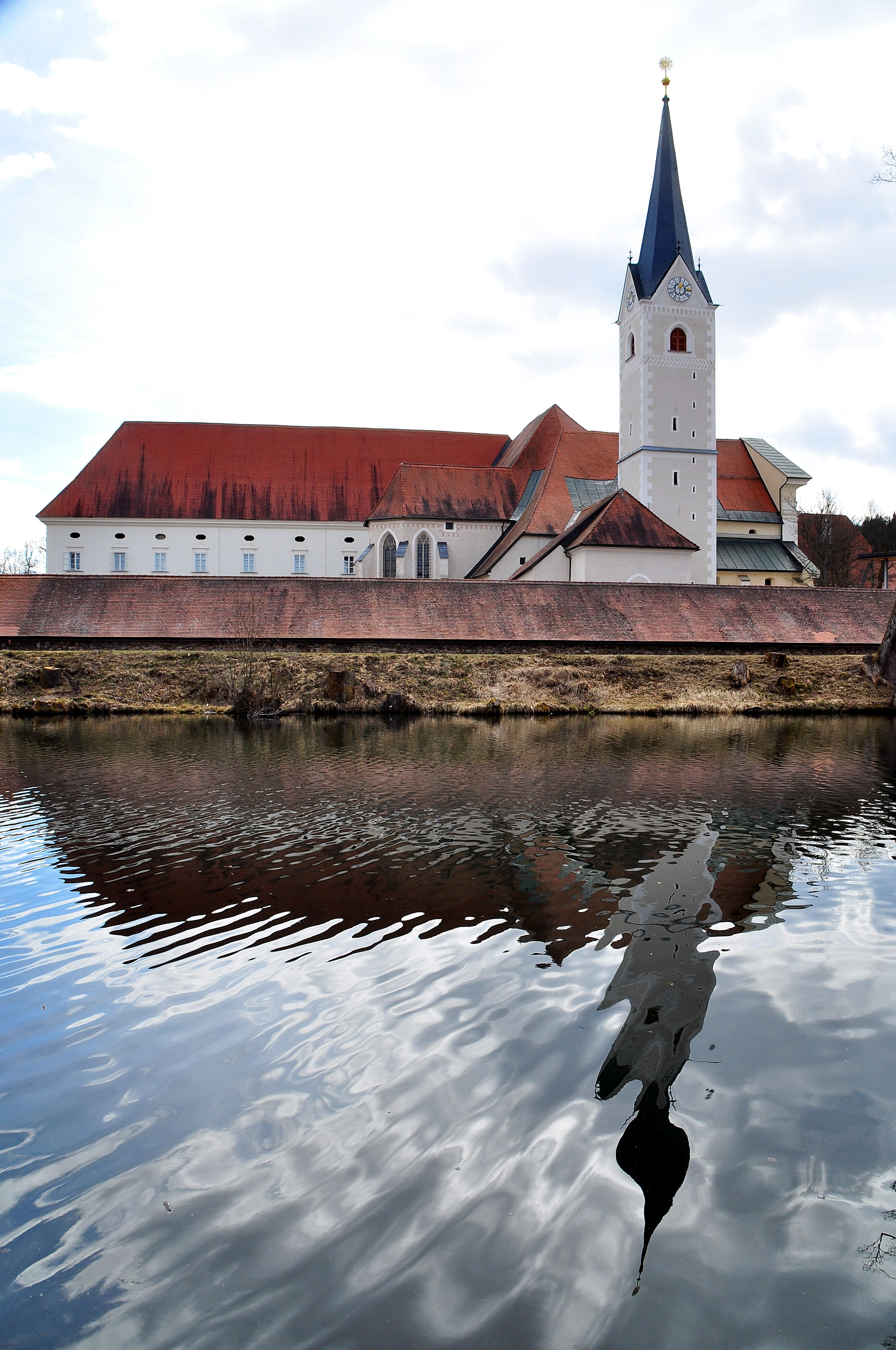 Northern view of the collegiate church at the cistercian monastery, 13th district Viktring, municipality Klagenfurt, Carinthia, Austria, EU